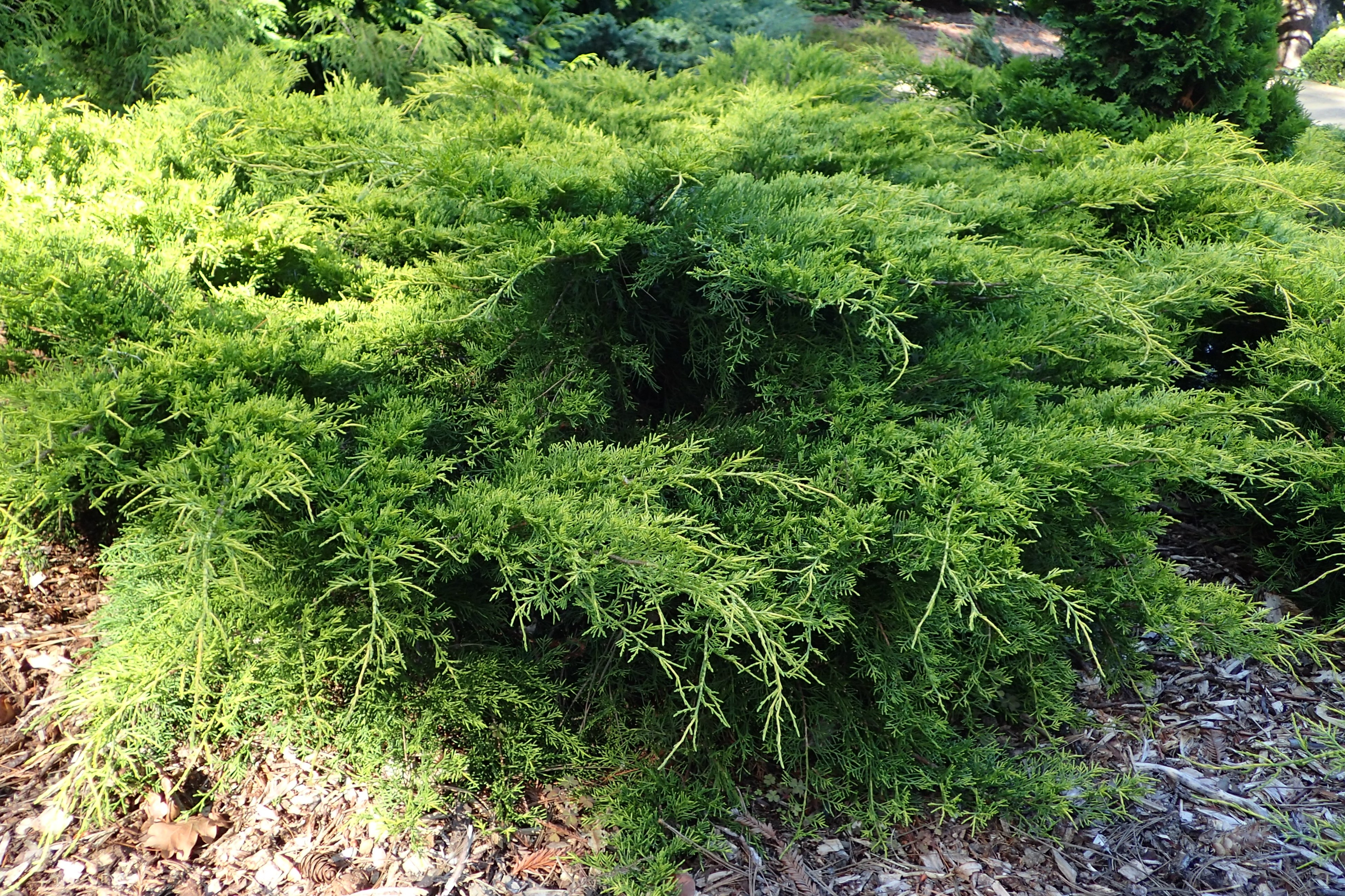 Juniperus × pfitzeriana 'Gold Coast' in Dunedin Botanic Garden